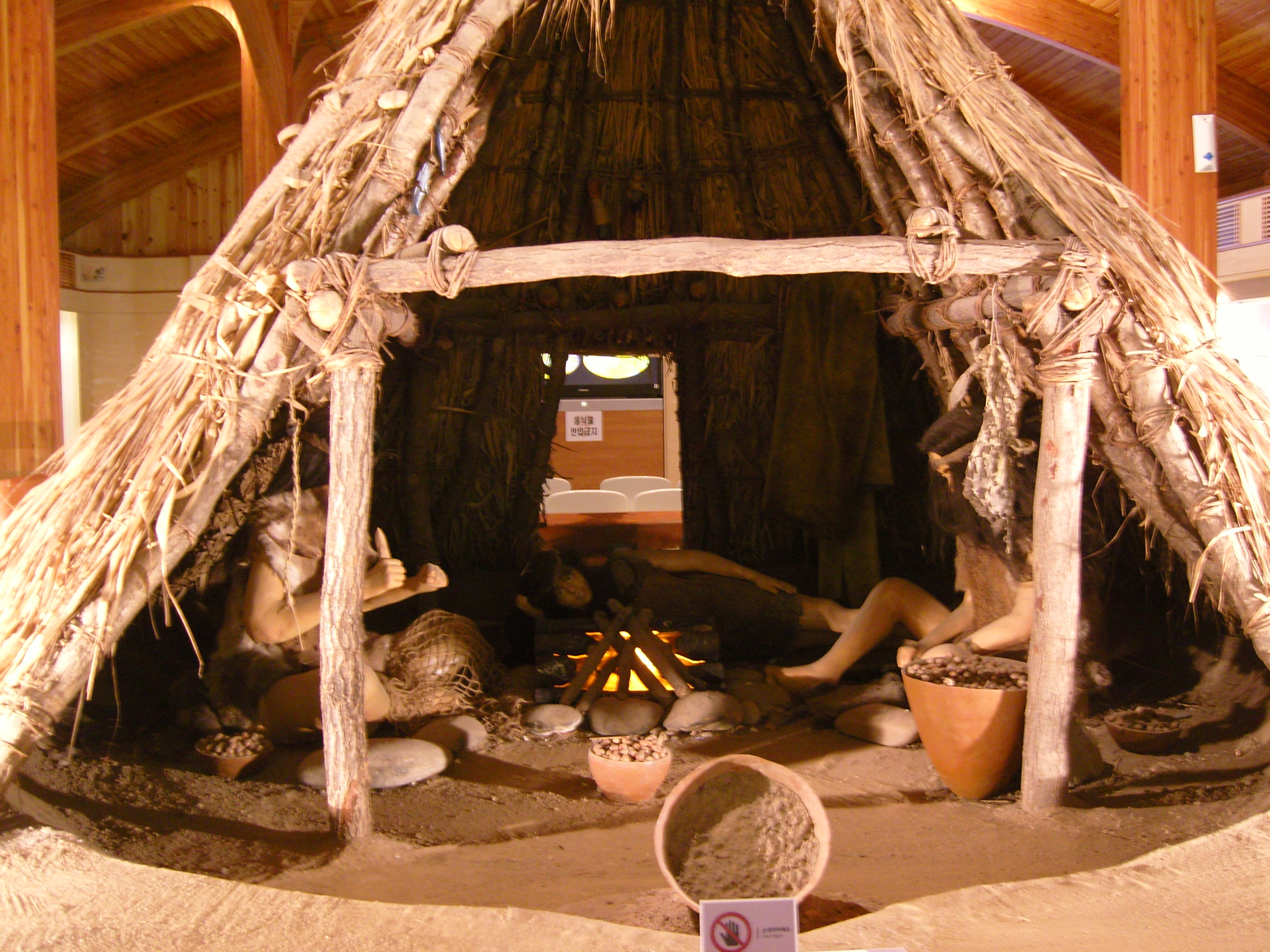 Amsadong, Kangdonggu, Seoul prehistoric Settlement Site, digout mud hut